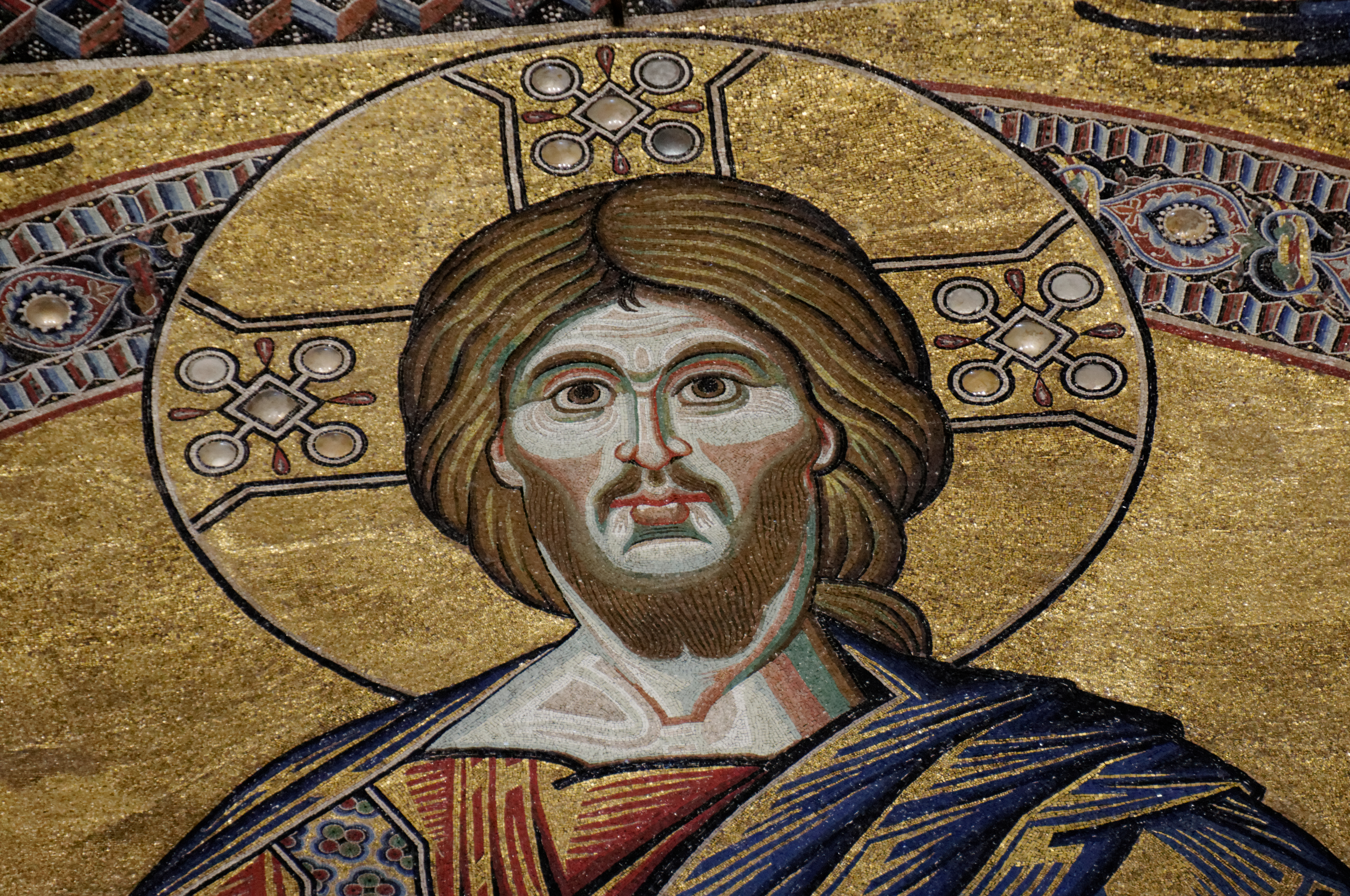 Mosaic ceiling: Christ in majesty, detail.